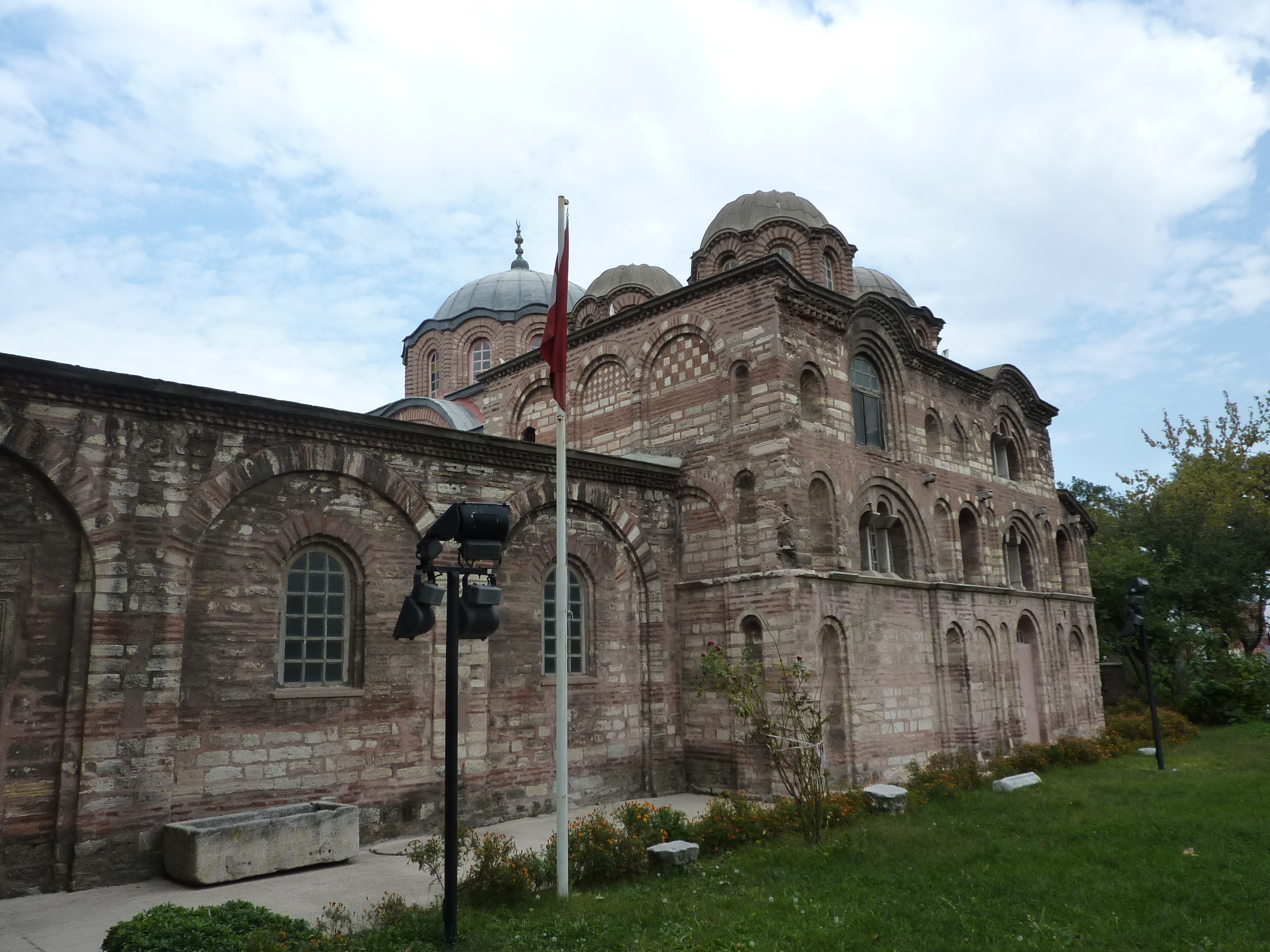 Pammakaristos Church (Fethiye Museum).